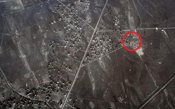 Lewinów - part of warsaw